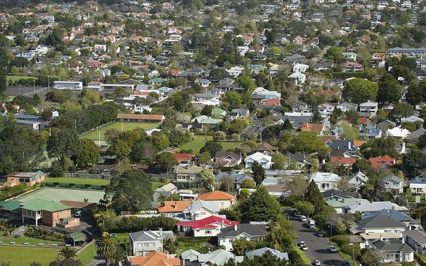 Epsom, New zealand